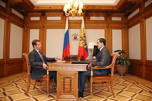 SOCHI. With President of Ingushetia Yunus-Bek Yevkurov.